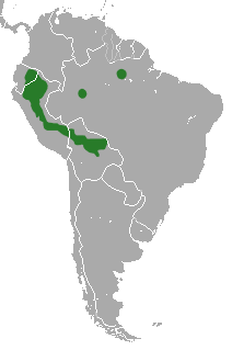 Bushy-tailed Opossum (Glironia venusta) range